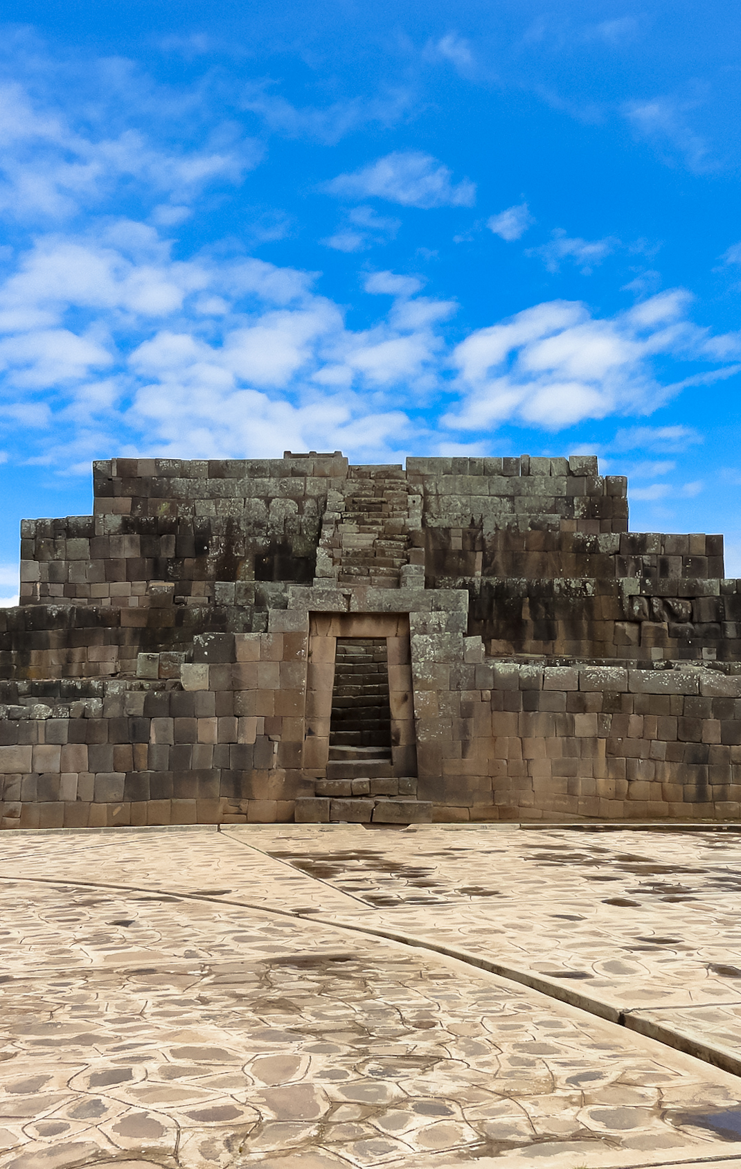 Ushno - Inca Pyramid in Viscashuaman, Ayacucho, Peru.